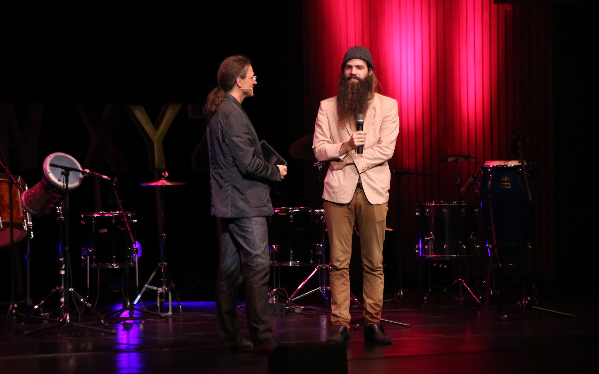 Julius von Bismarck recieving the [the next idea] voestalpine Art and Technology Grant at the Prix Ars Electronica 2012 (Brucknerhaus in Linz, Upper Austria).